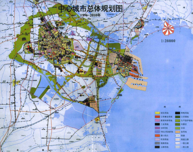 the documents from Government of Tianjin City，P.R.China in 1996